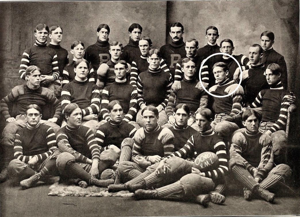 The 1900 VMI Keydets football team photo (wi:George C. Marshall (left tackle), is in the middle row, second from right)